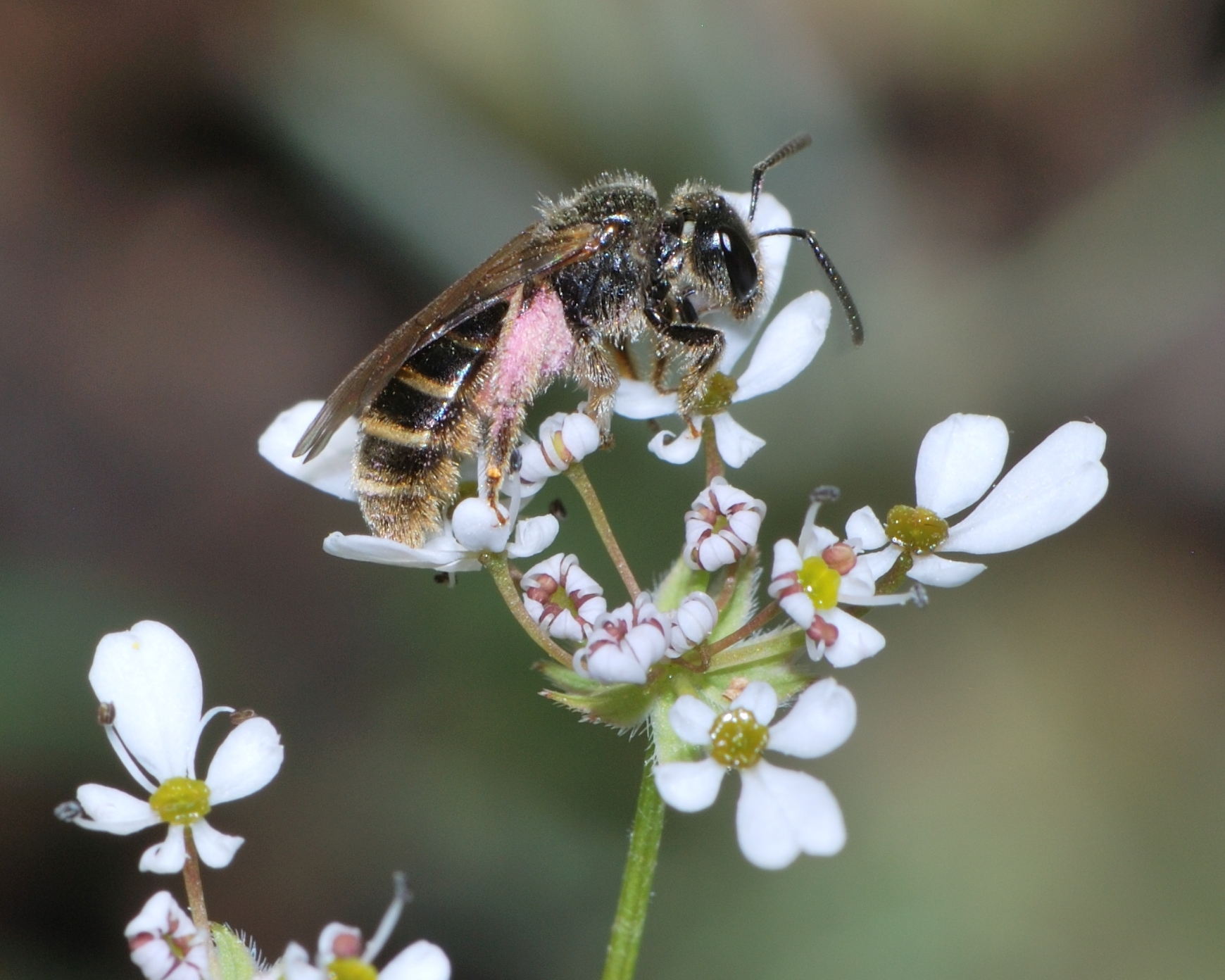 Lasioglossum marginatum, female foraging on Scandix sp., Mount Carmel, Israel, April 15, 2011.